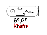 names of Khafre